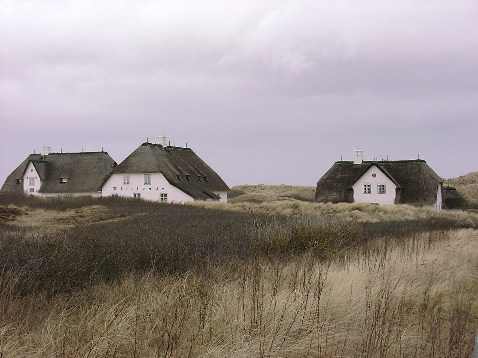 Thatched cottages in Kampener Heide on Sylt island